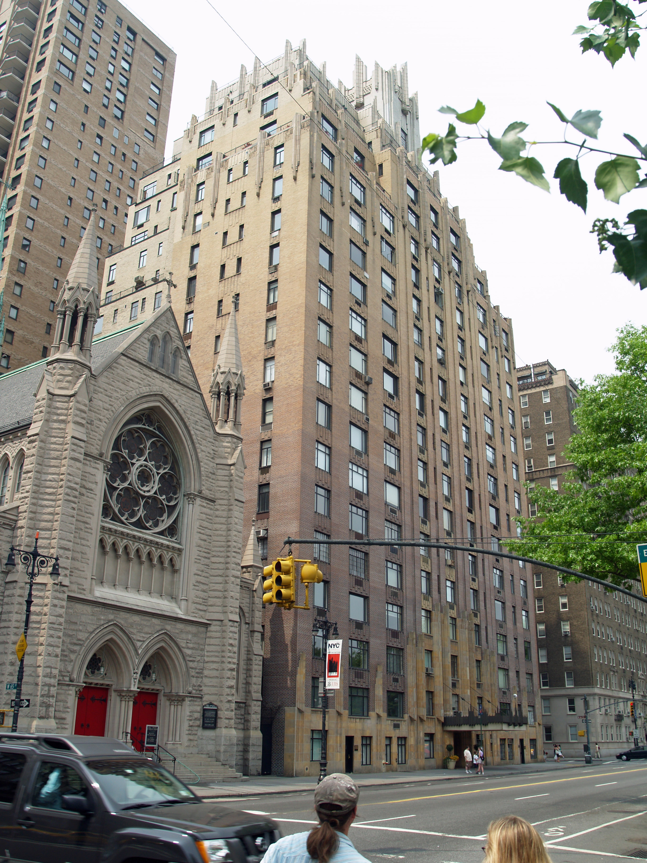 Looking north across 65th St and CPW at en:55 Central Park West (Ghostbusters Building) and its smaller neighbor Holy Trinity Lutheran Church (New York City)